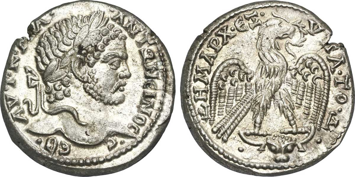 Monnaie frappée en la cité de Carrhae